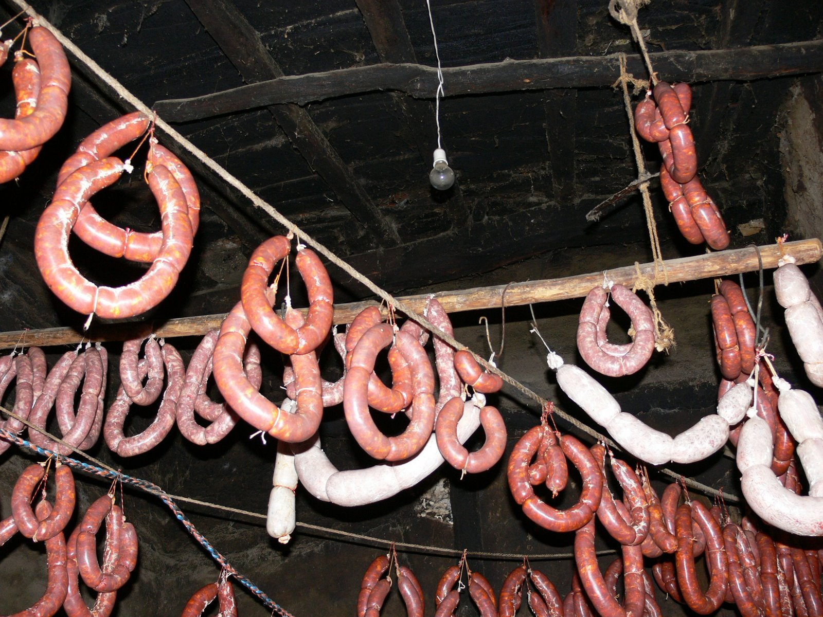 matanza